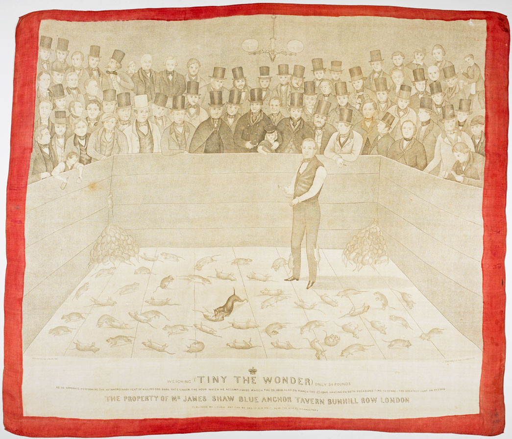 Handkerchief of Tiny the Wonder, created circa 1850 by Jemmy Shaw.